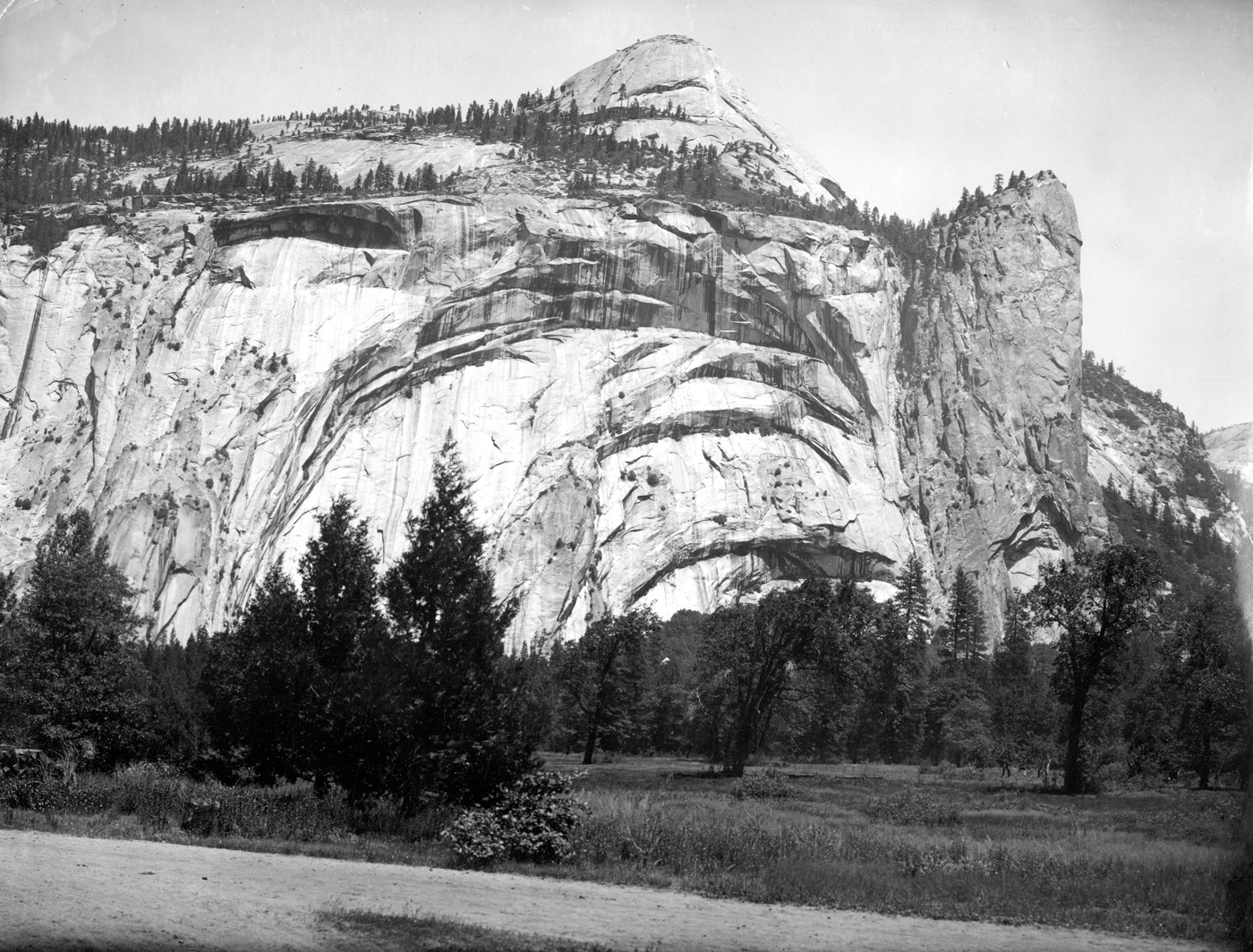 Yosemite National Park, California. Royal Arches and Washington Column surmounted by North Dome. Royal Arches are sculptured in a slanting cliff face 1,500 feet high. North Dome rises 2,000 feet higher. The dark streak on the cliff on the left indicates the path of Royal Arch Cascade. Circa 1914. Plate 21-B, U.S. Geological Survey Professional paper 160.